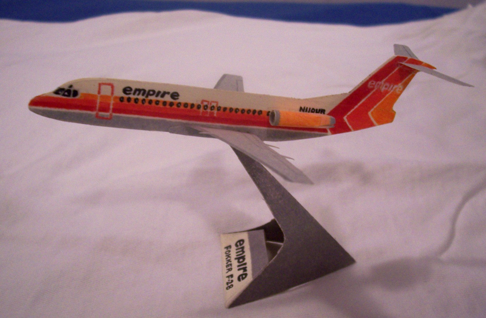 Model of Empire Airlines Fokker F-28 regional jet aircraft